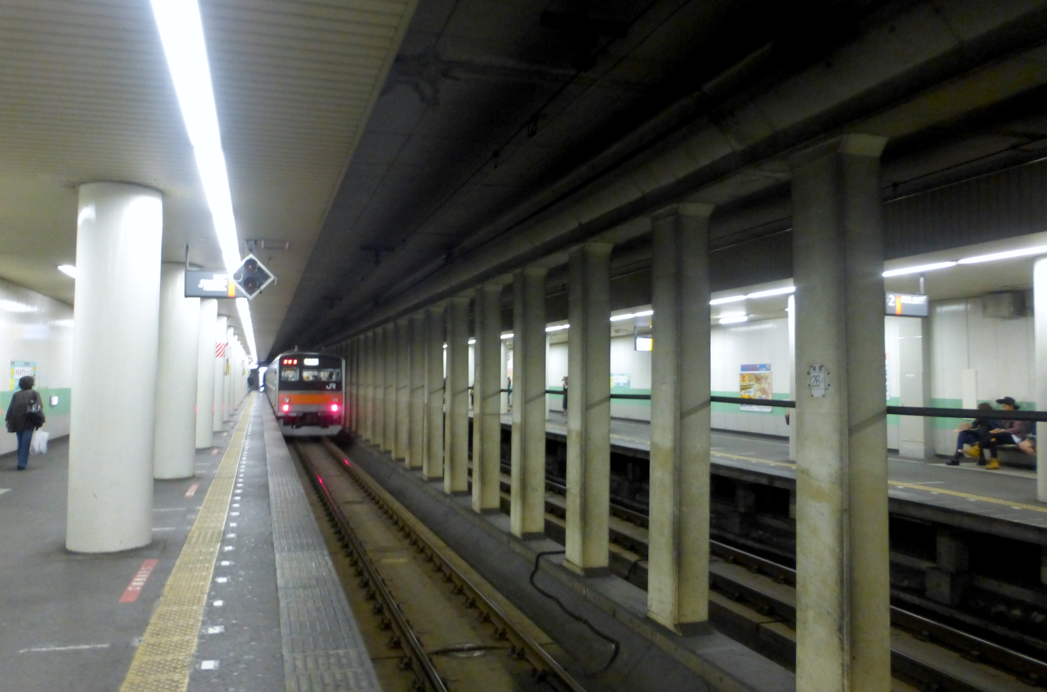 The underground platforms at Shin-Yahashira Station on the Musashino Line